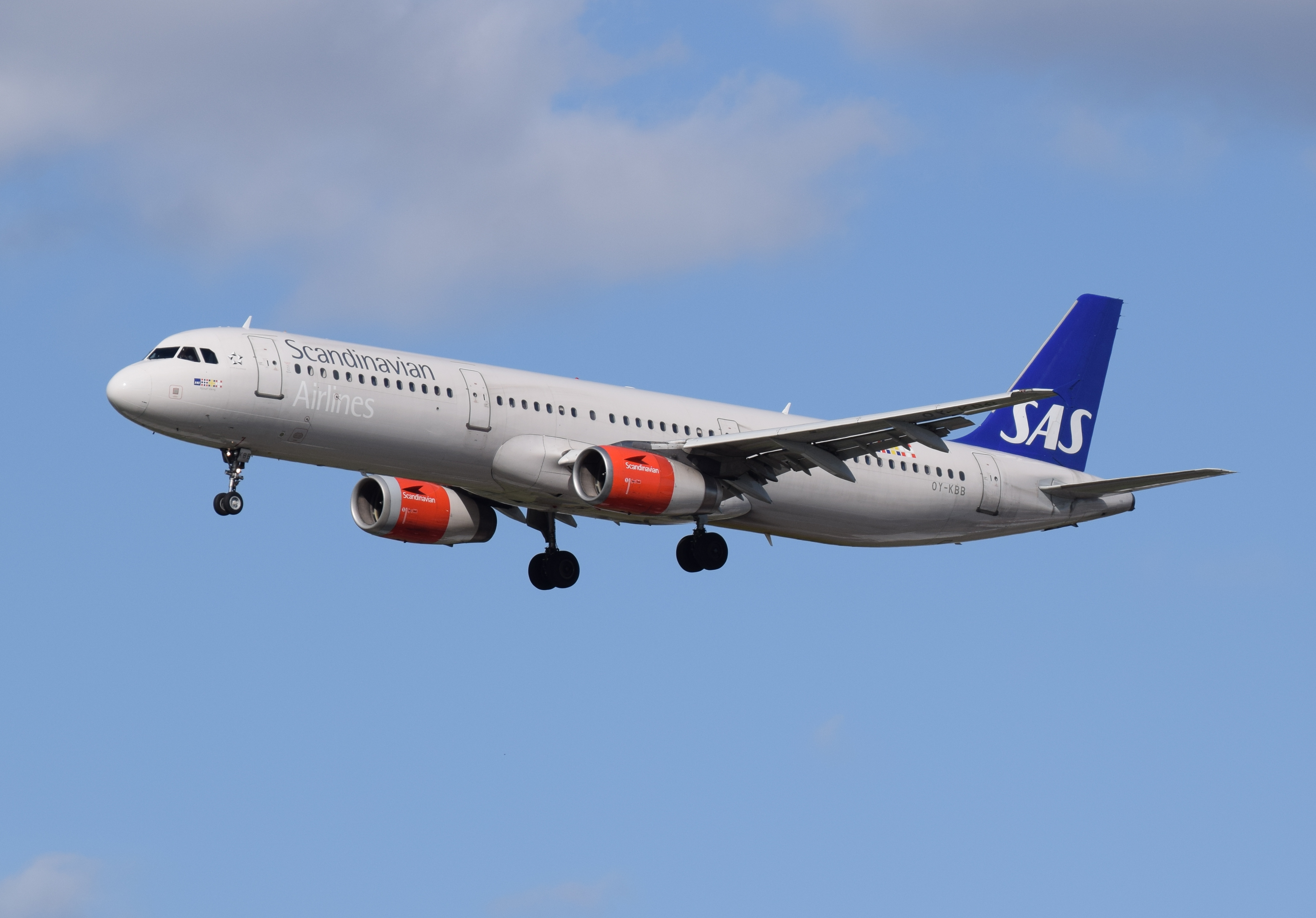 SAS Scandinavian Airlines Airbus A321-200 (OY-KBB) arrives London Heathrow Airport, England.